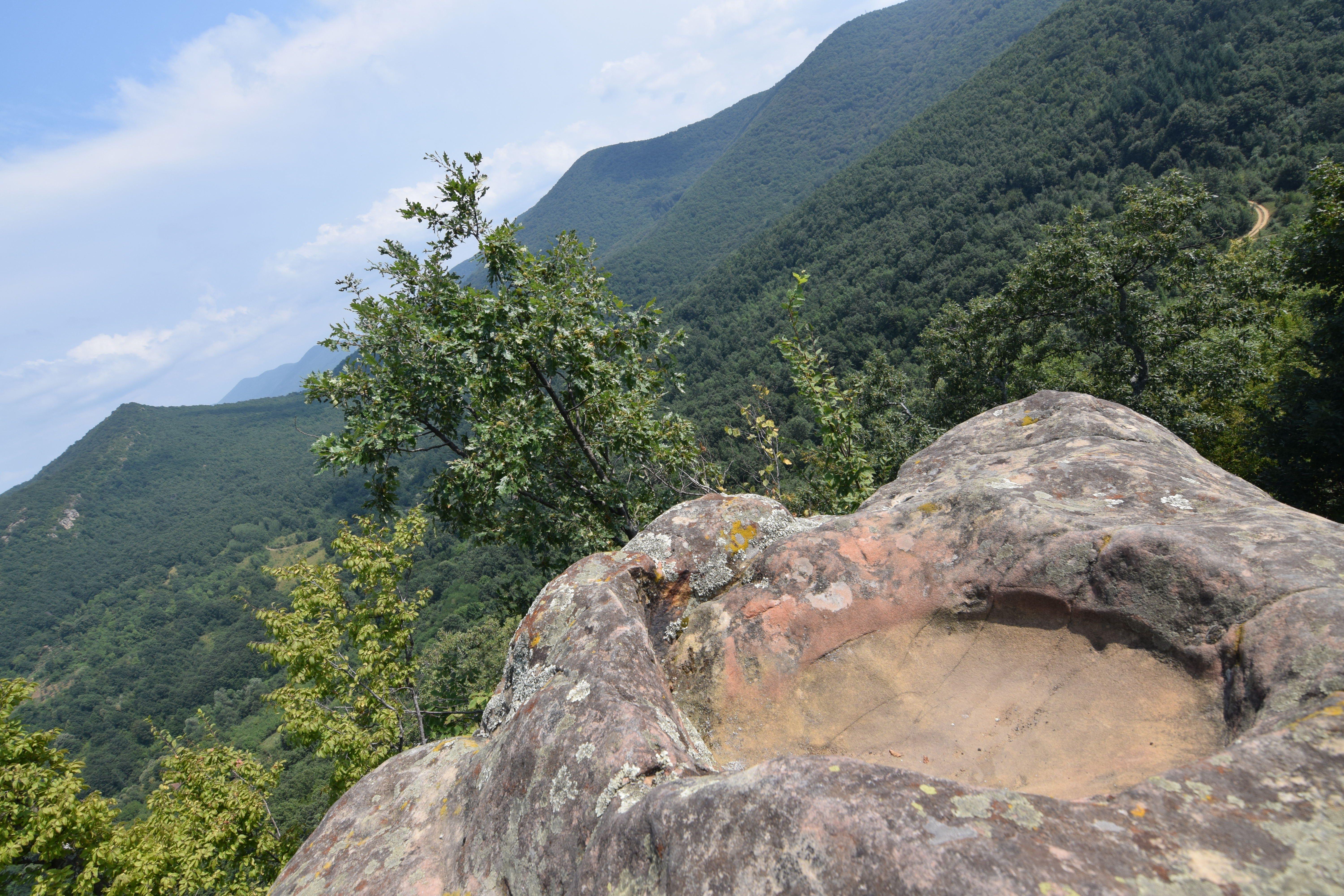 Bozhenishki Urvich is a ruined fortress on the northern slopes of Lakavishki Reed in the western Balkan Mountains at 3 km south of village Bozhenitsa and 20 km from the town of Botevgrad, Bulgaria. It is situated at 750 m a.s.l.